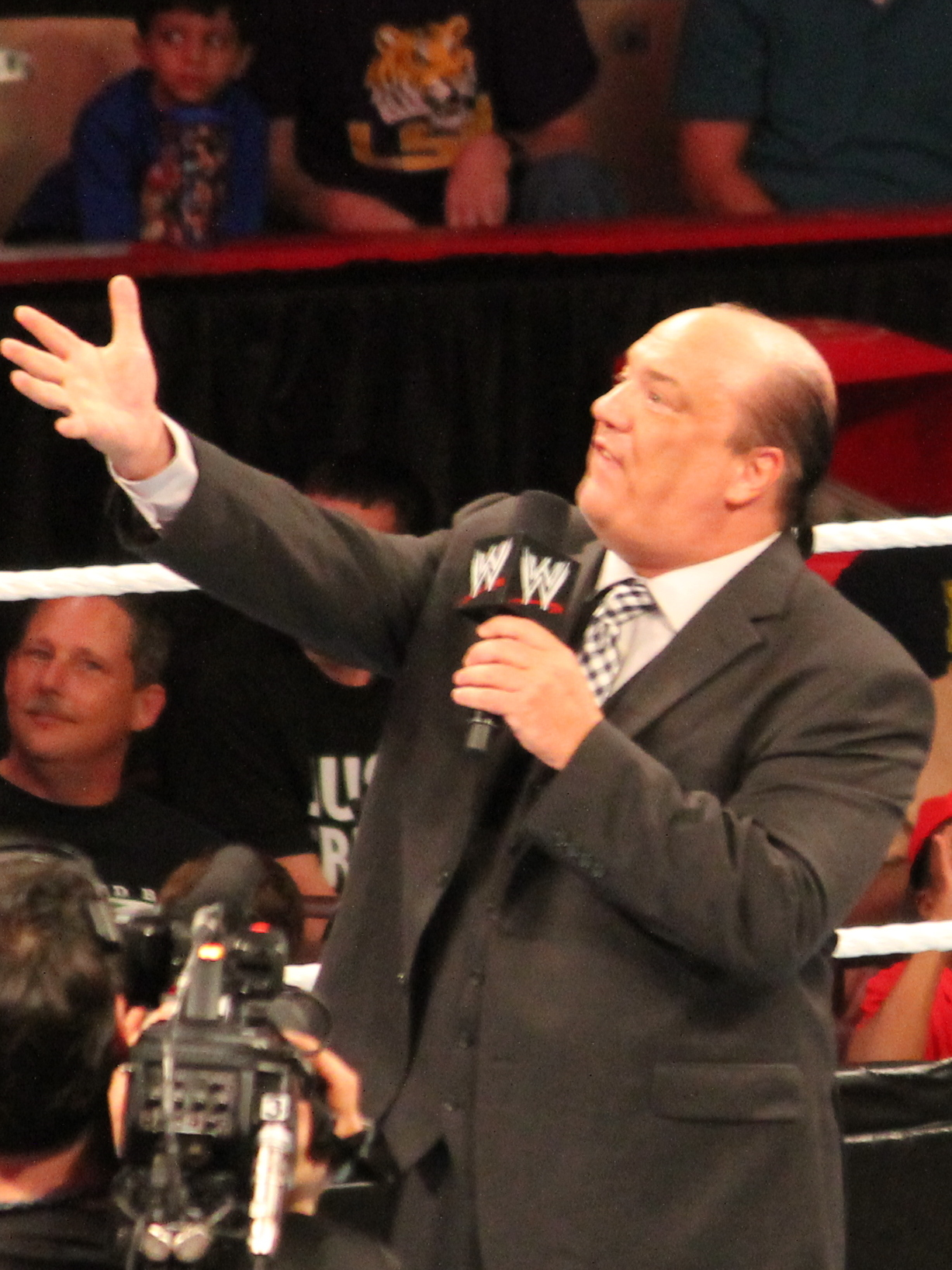 Paul Heyman on WWE Raw on February 18, 2013. Cropped from original image.